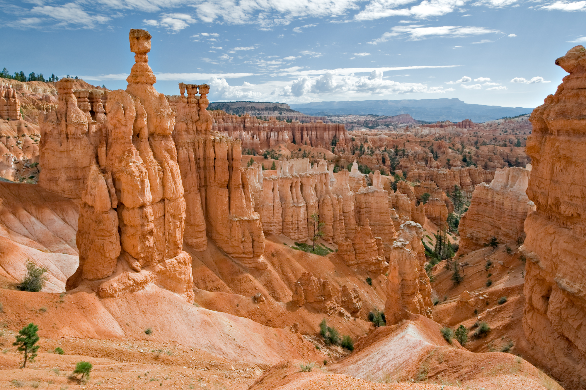 Thor's Hammer formation in Bryce Canyon National Park. Southwestern Utah, USA.